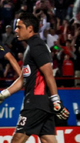 América player Moisés Muñoz